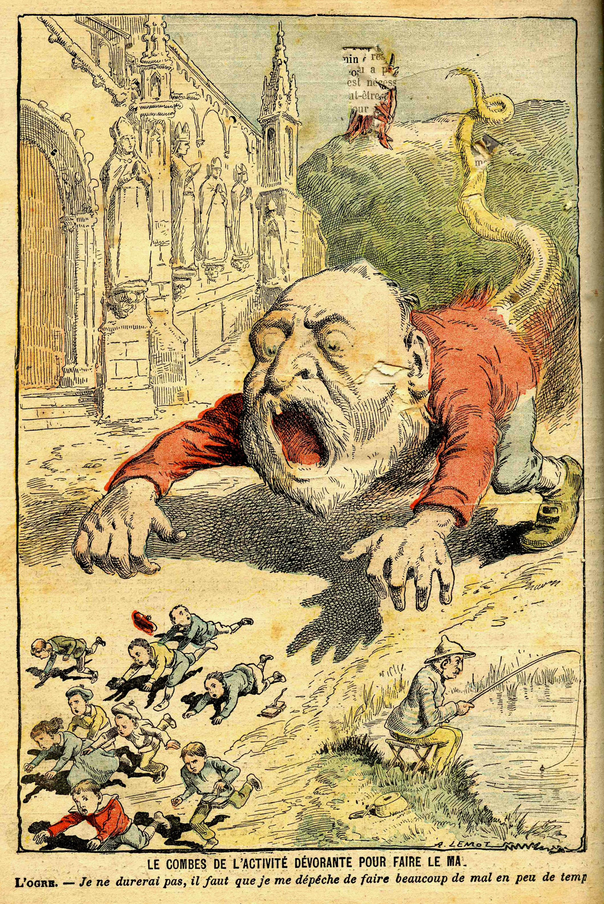 French politician Emile Combes seen by Achille Lemot